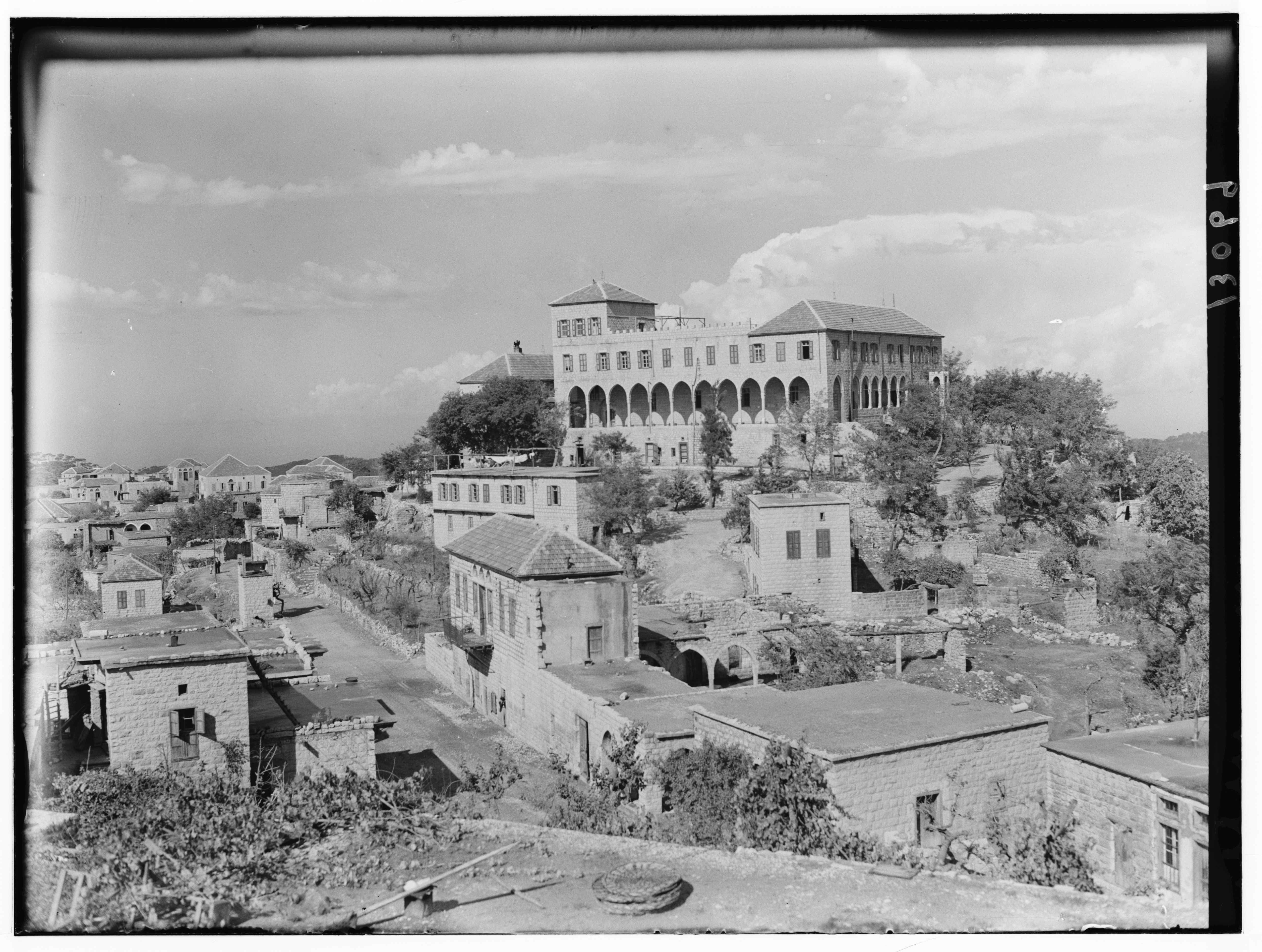 Title: Mr. Oliver's school, Ras-el-Matn. General view of school & surroundings showing street in front & village Abstract/medium: G. Eric and Edith Matson Photograph Collection Physical description: 1 negative